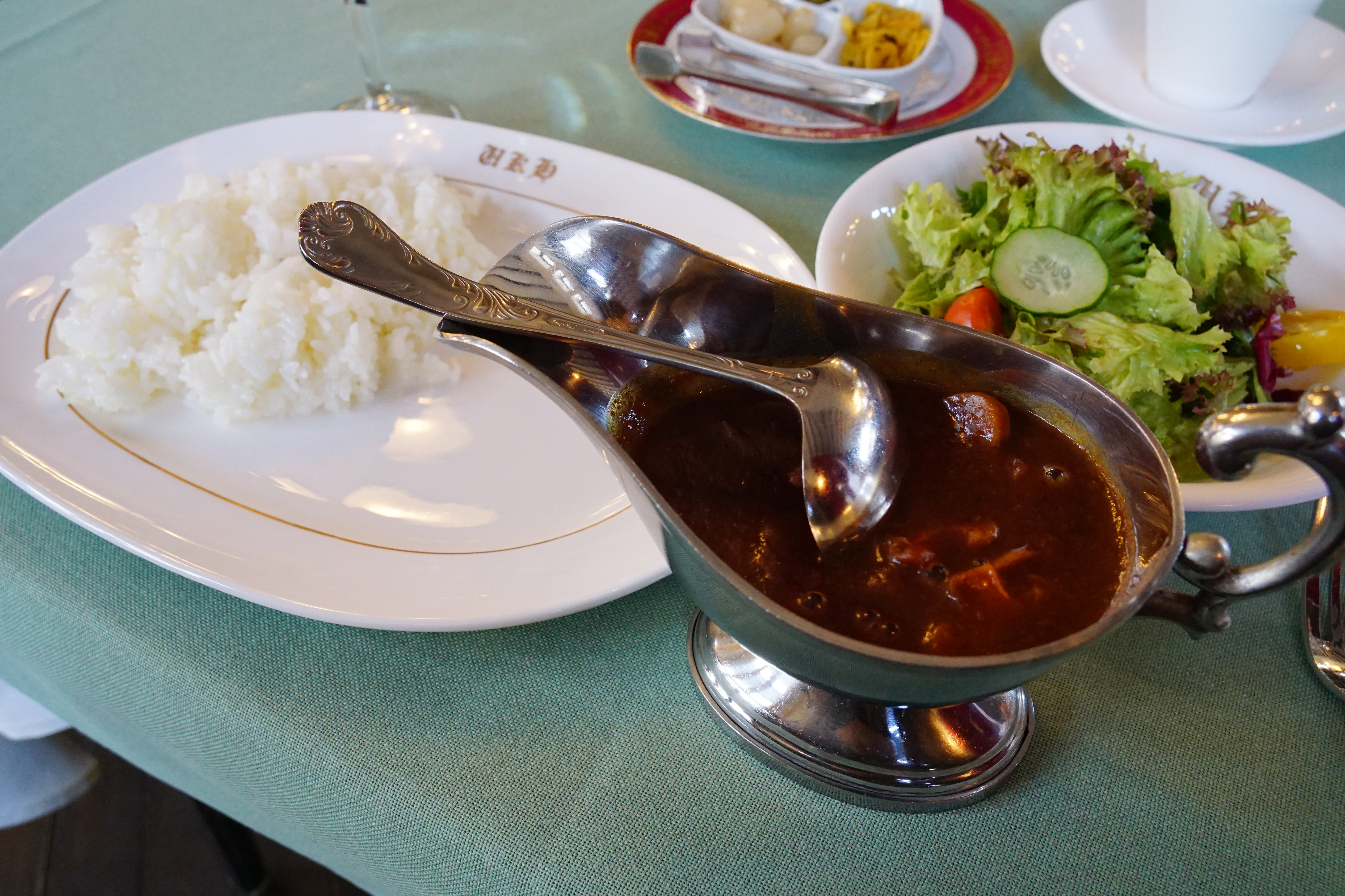 Unzen Kanko Hotel in Unzen City, Nagasaki prefecture, Japan.